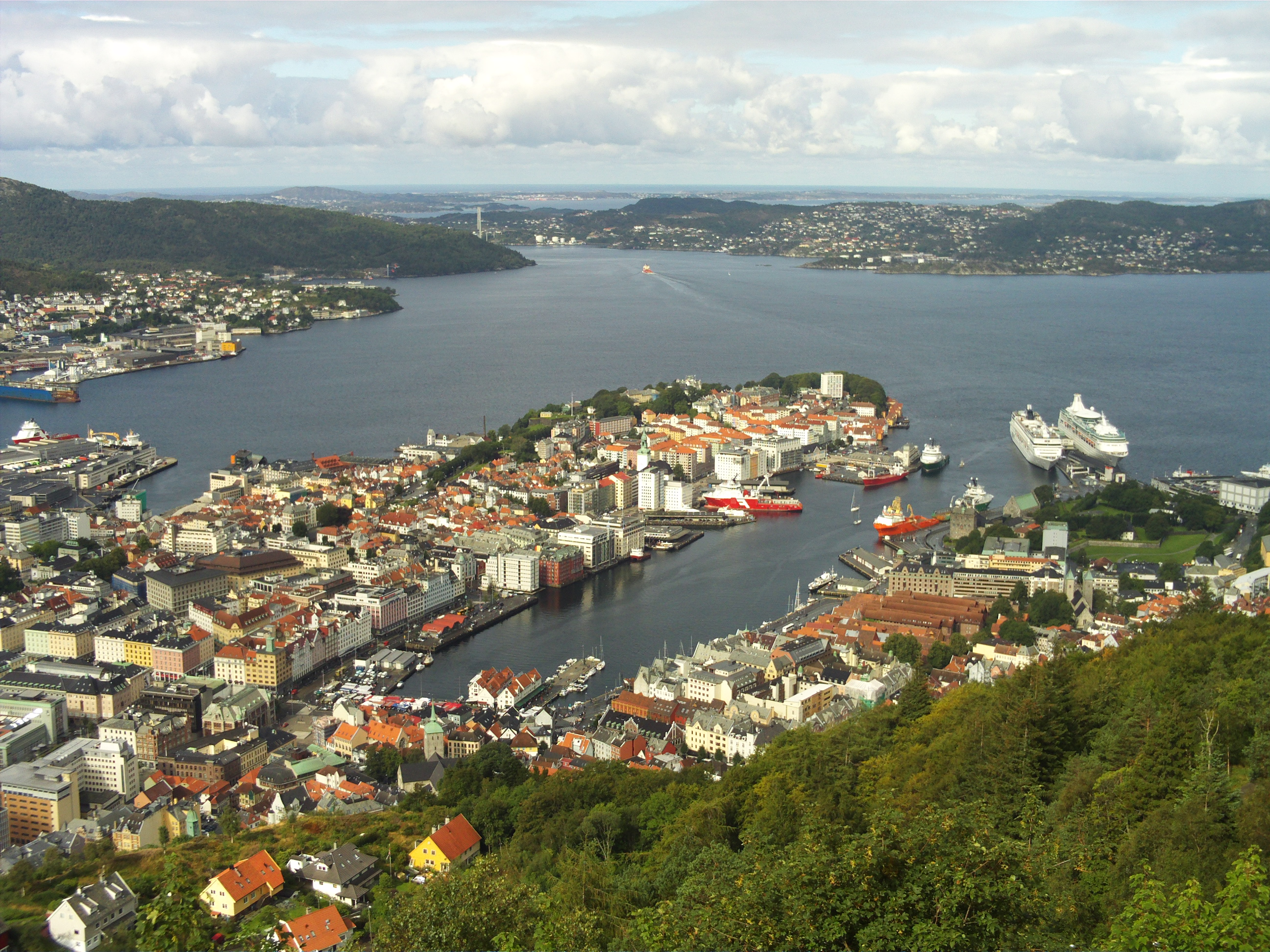 View of Bergen from mount Floyen